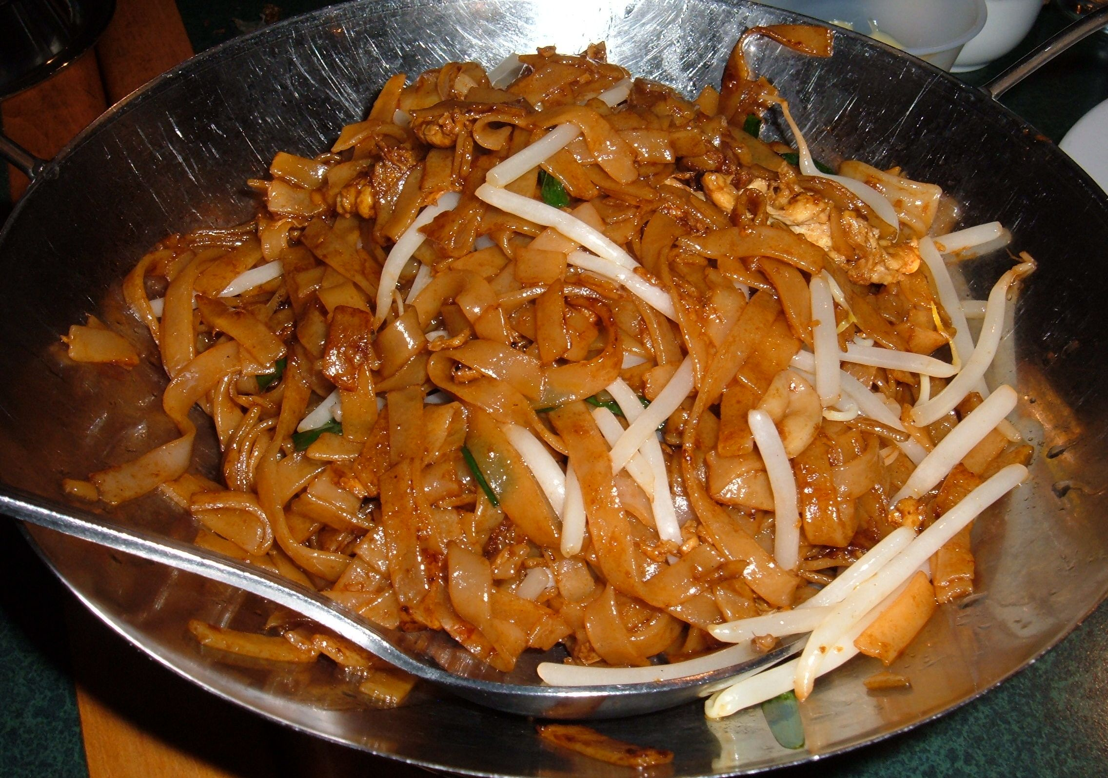 Chow Kueh Teow